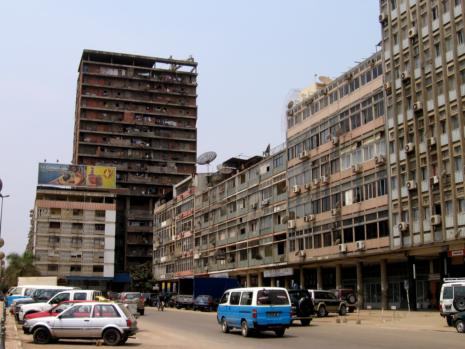 Luanda center, Angola.